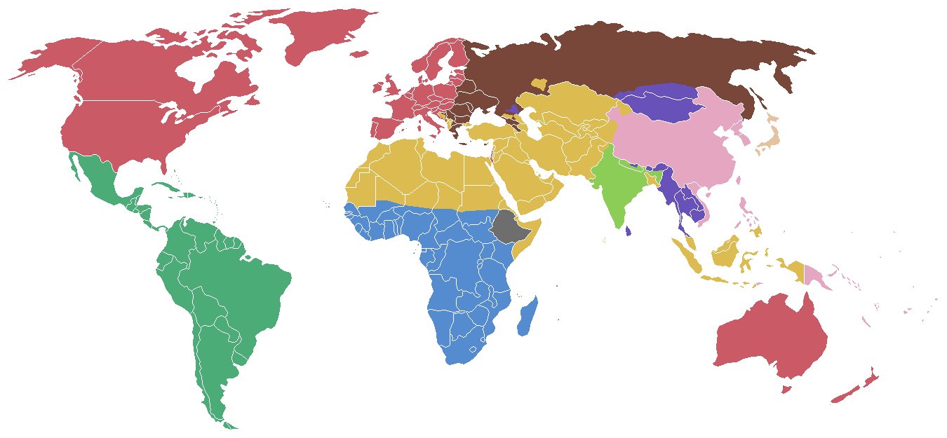 Civilisations as depicted in Samuel P. Huntington's The Clash of Civilizations based on Image:BlankMap-World.png Western Christendom Orthodox world Latin America Muslim world. Note: Huntington considers Turkey to be a separate civilization, based on language and history. Hindu civilization Sinic civilization Sub-Saharan Africa Buddhist areas Japan "lone" countries